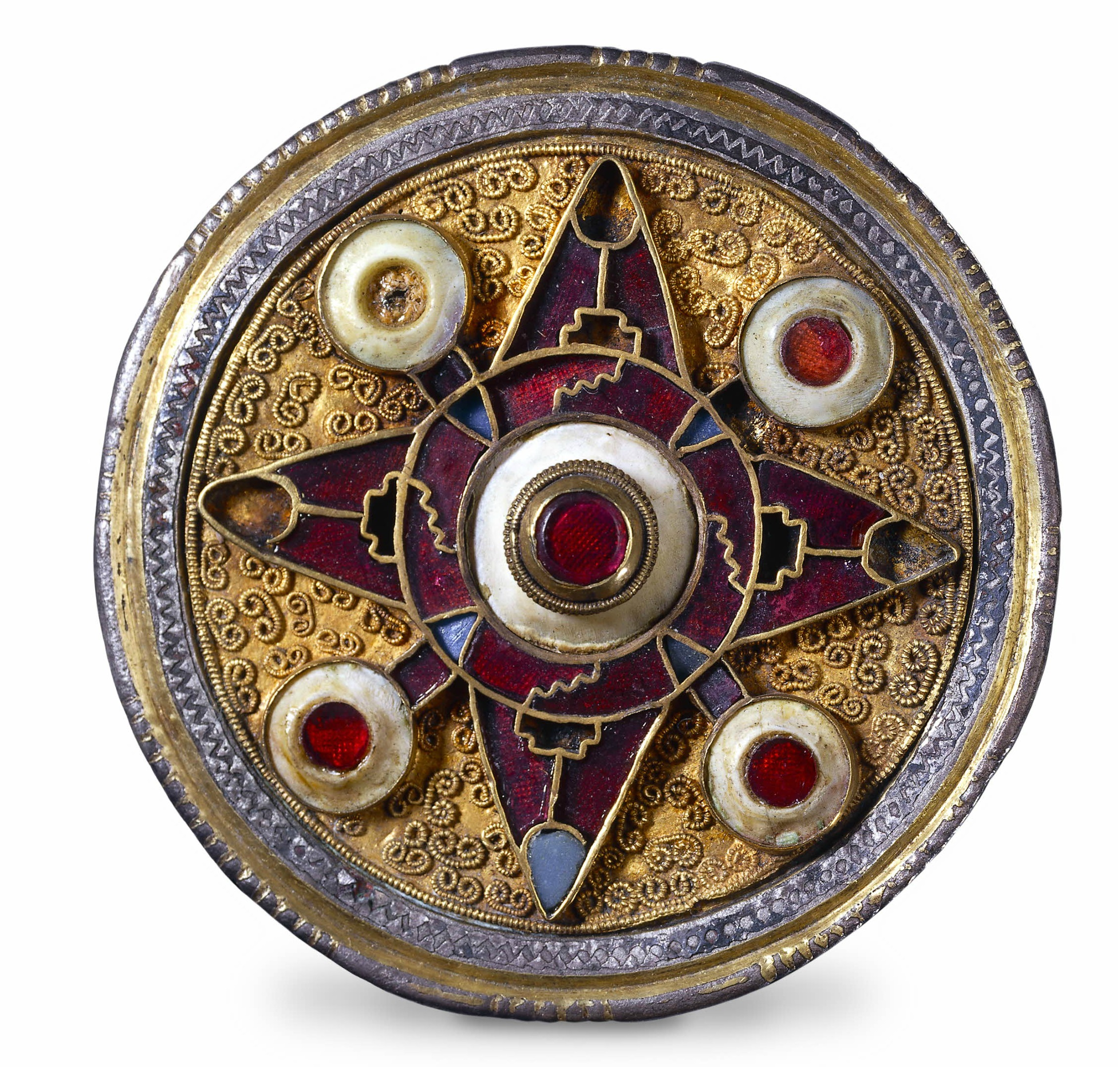 Early Anglo-Saxon era silver-gilt plated disc brooch. The brooch contains a nielloed border and gold appliqué with cloisonné garnet and glass cross, five shell bosses and filigree.